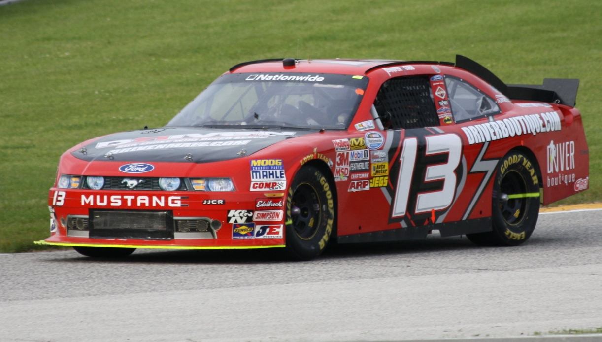 NASCAR driver Jennifer Jo Cobb racing her stock car at Road America at the 2011 Bucyros 200 Nationwide Series race.